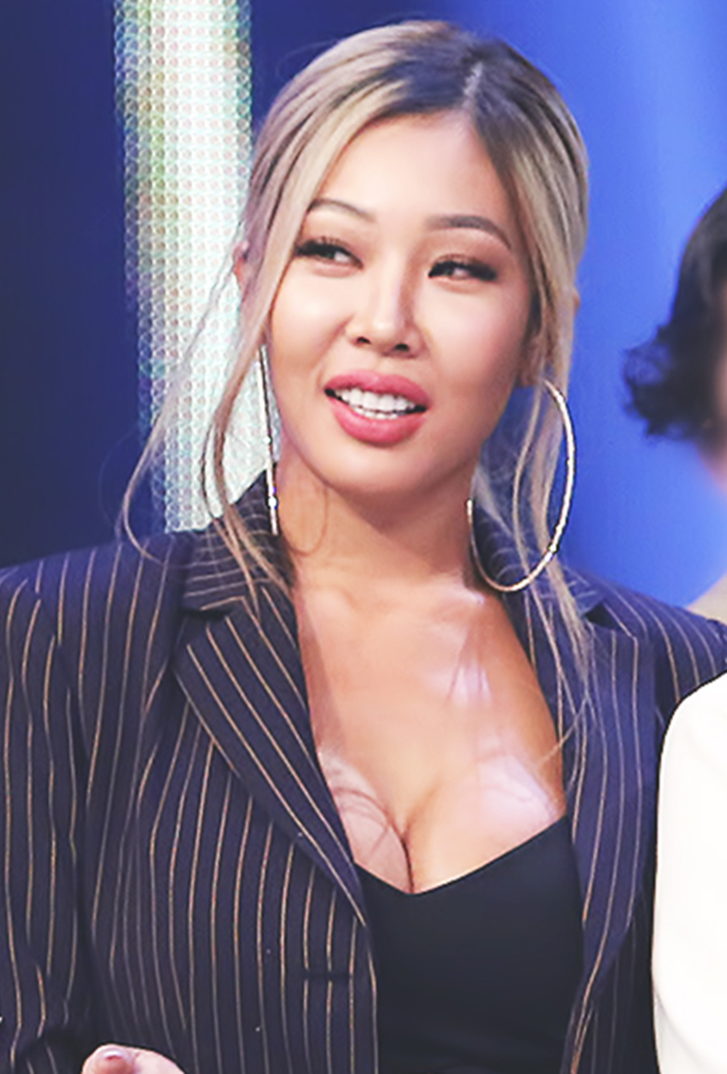 Jessi during at KBS Entertainment Awards on 24 December 2016.